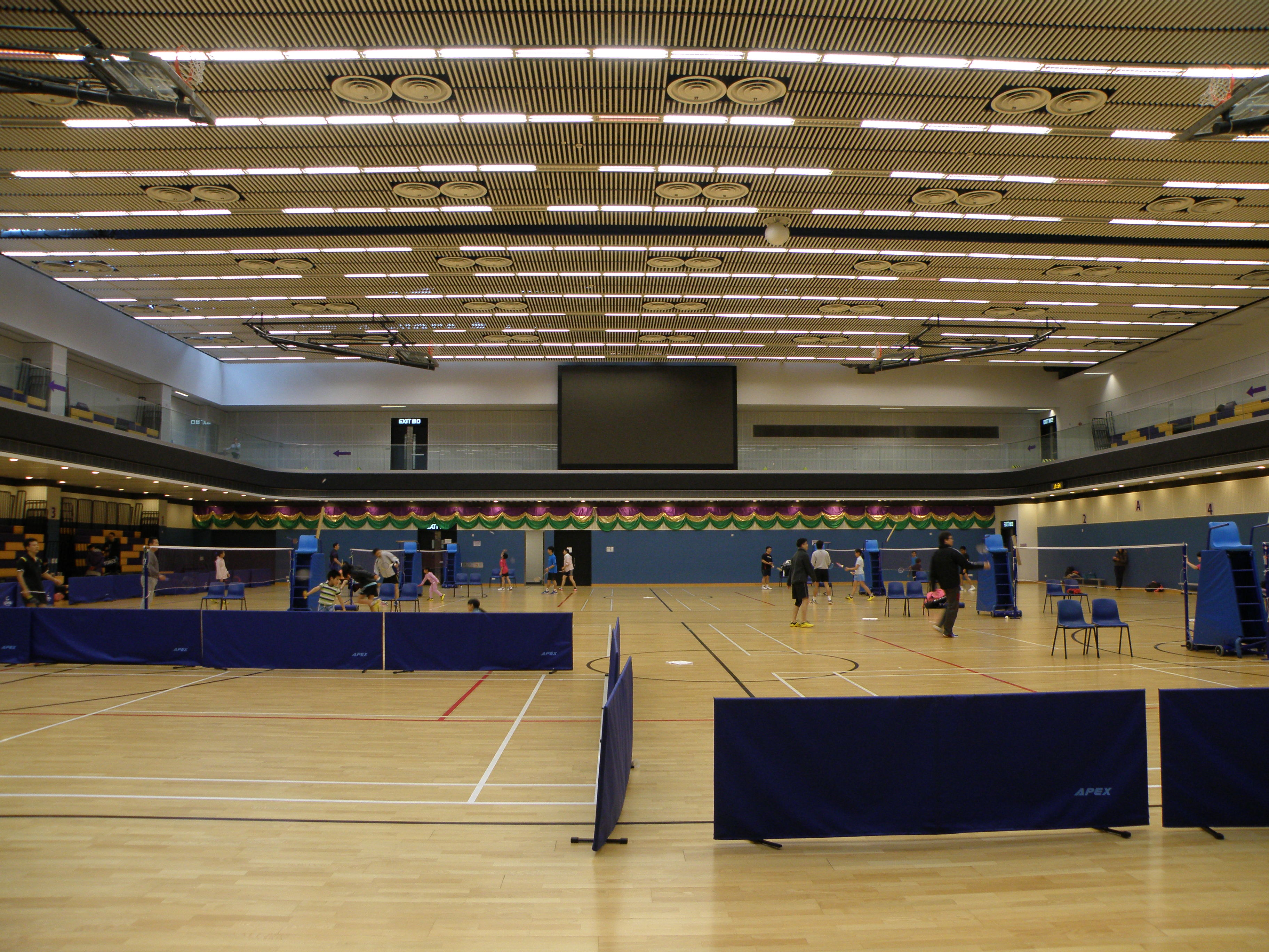 Hang Hau Sports Centre in Tseung Kwan O, Hong Kong.